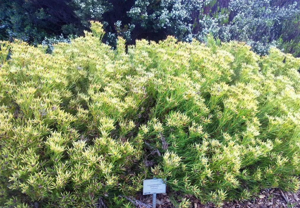 Leucadendron salignum - Geelbos conebush